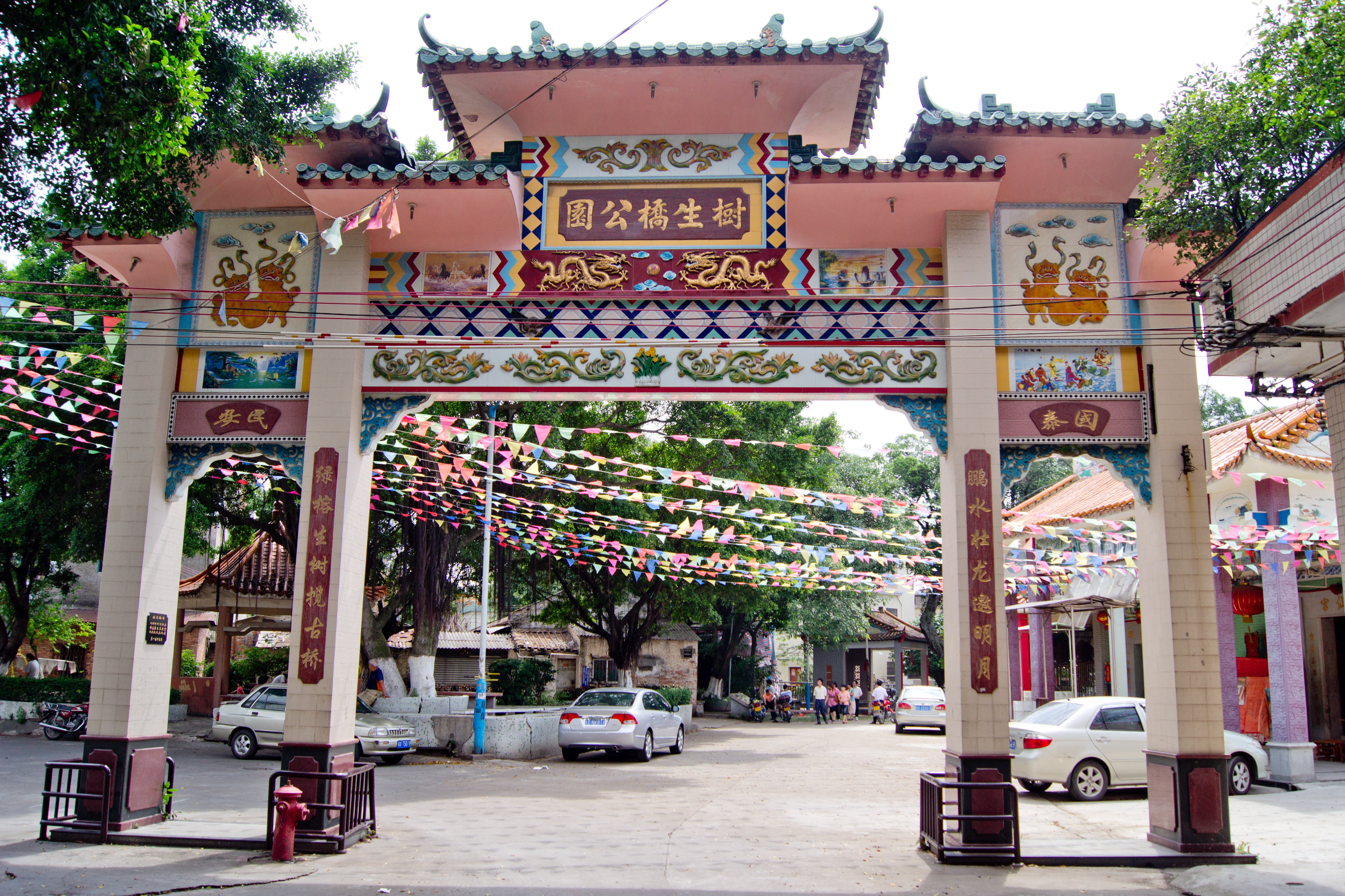 Shusheng Bridge Park of Ronggui